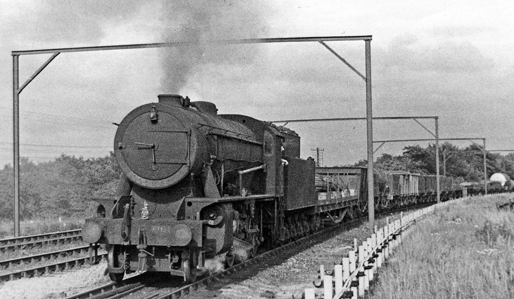 Westbound freight train near West Silkstone Junction. View eastward, towards Barnsley (also Wath via Worsborough). The train, headed by an ex-War Department 2-8-0 (no. 77138) is a Class H freight bound for Pensitone and the Woodhead Line to Manchester (x-Great Central) and has probably come from Wath Yard up the very heavily graded Worsborough Branch that by-passed Barnsley. The masts and cross-beams had been erected over 10 years earlier when the electrification of the route had begun, but was interrupted by the War and then the building of Woodhead New Tunnel.